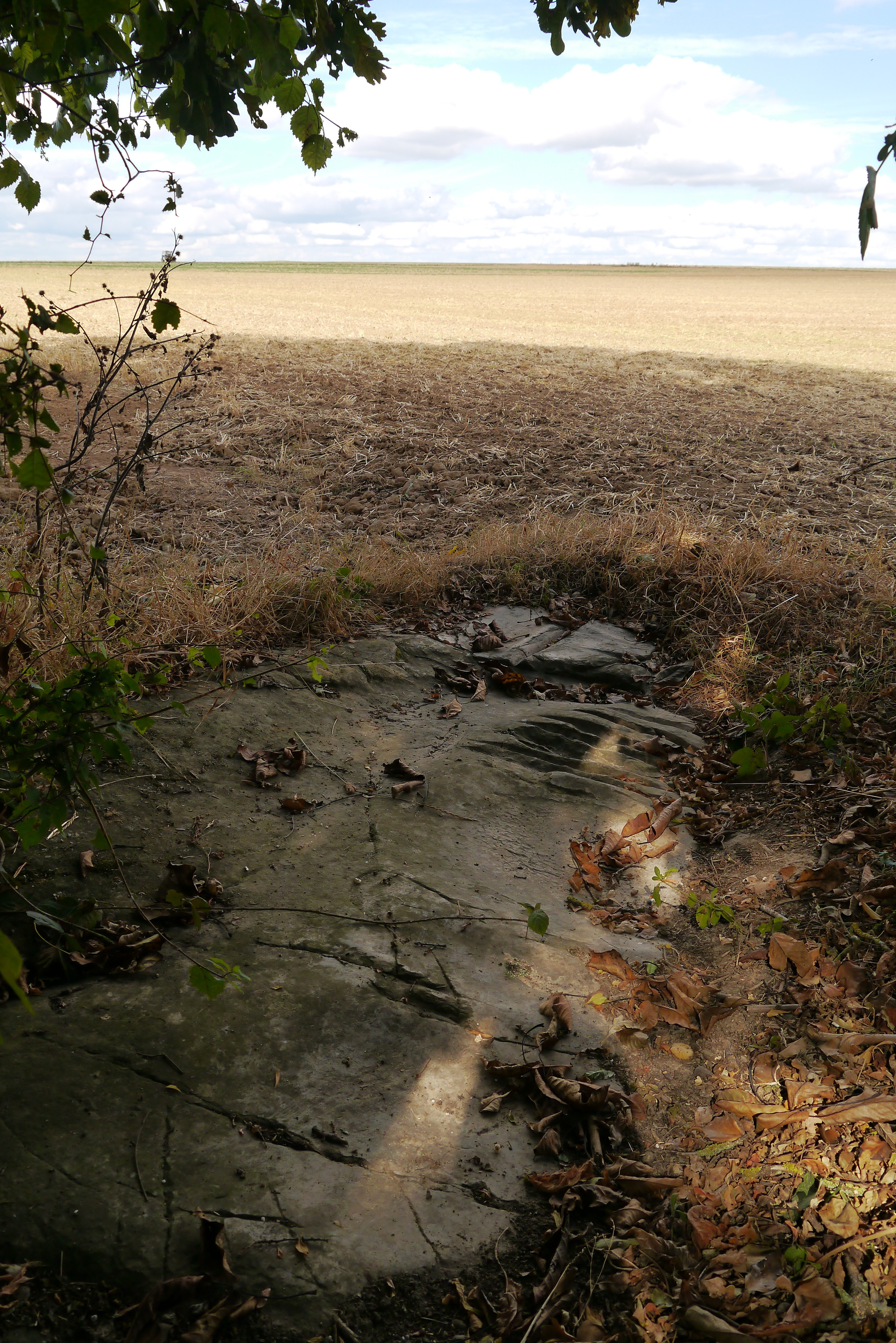 Buno-Bonnevaux, Essonne, France. Polissoir de Grimery.